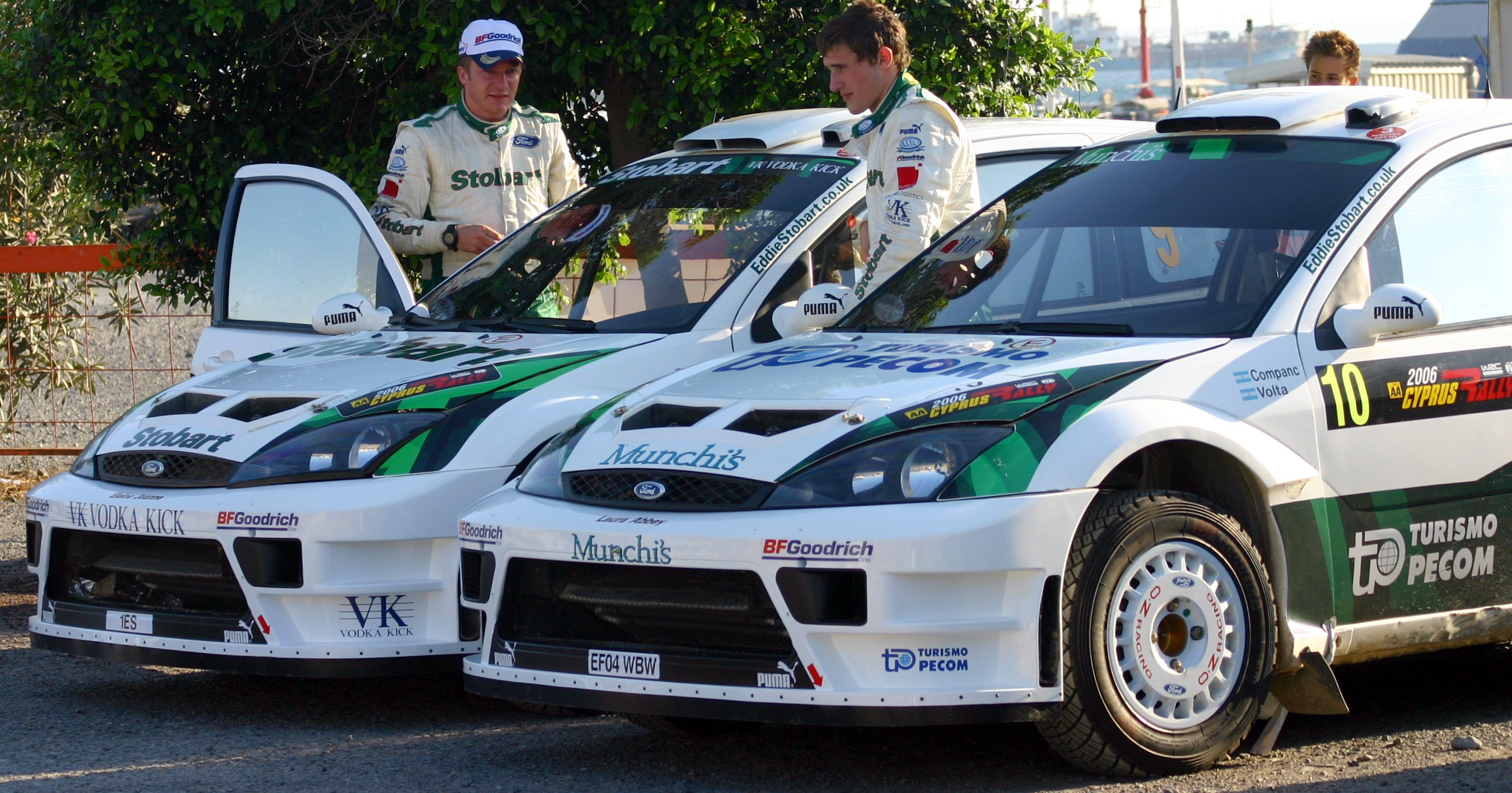 Stobart VK M-Sport Ford cars at the closing ceremony of the 2006 Cyprus Rally.